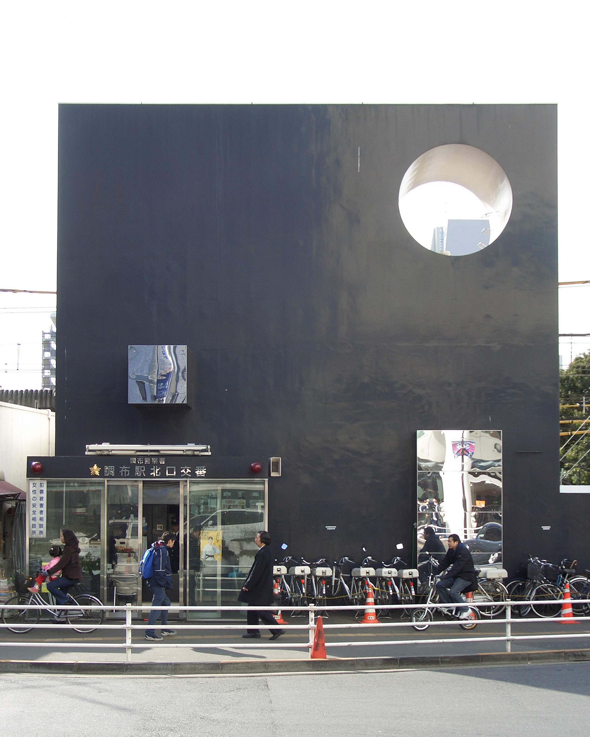 Police Office in Chofu Station, at Chofu Tokyo Japan, Designed by Kazuyo Sejima.